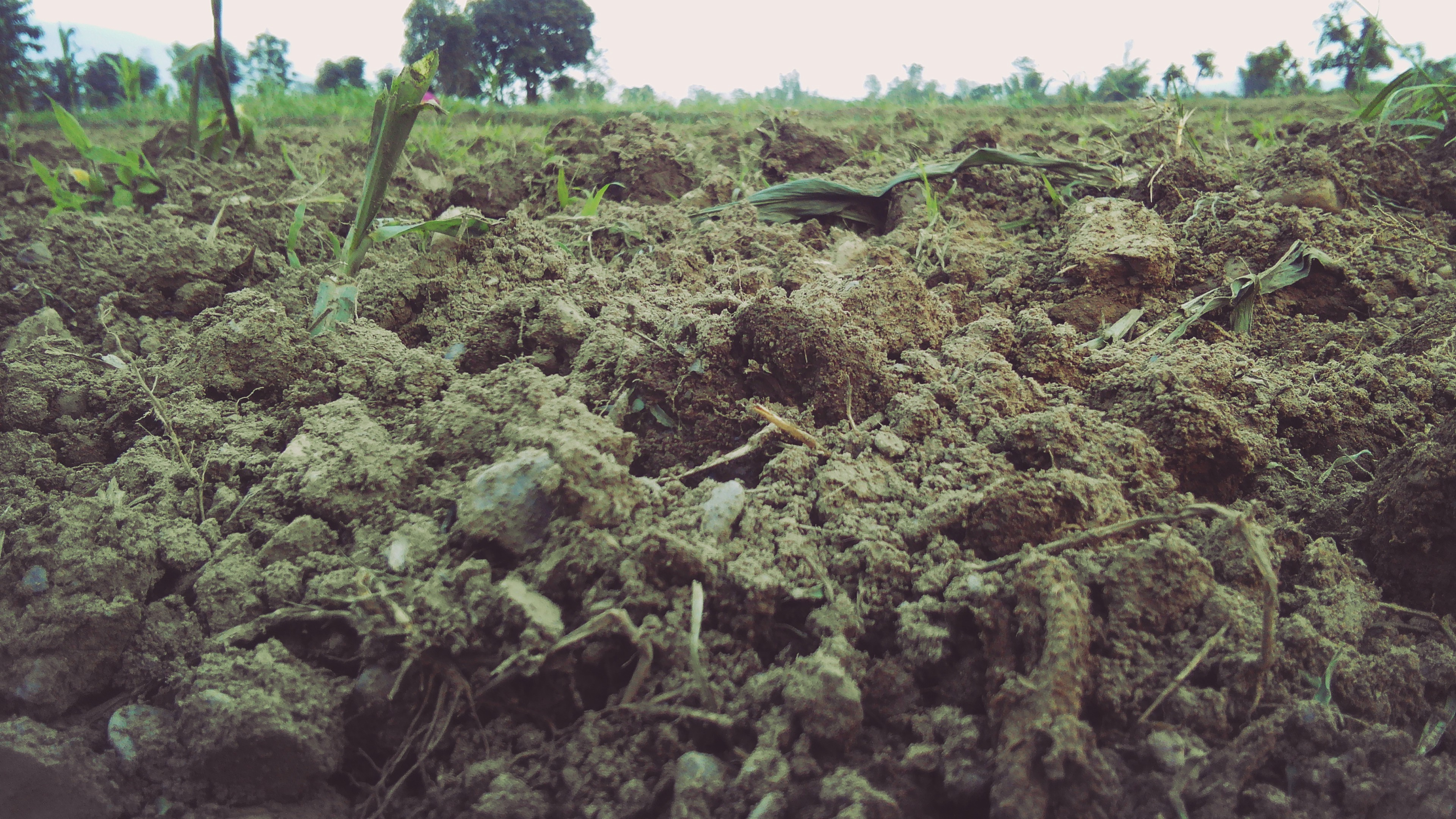 The picture of soil without using any effects.